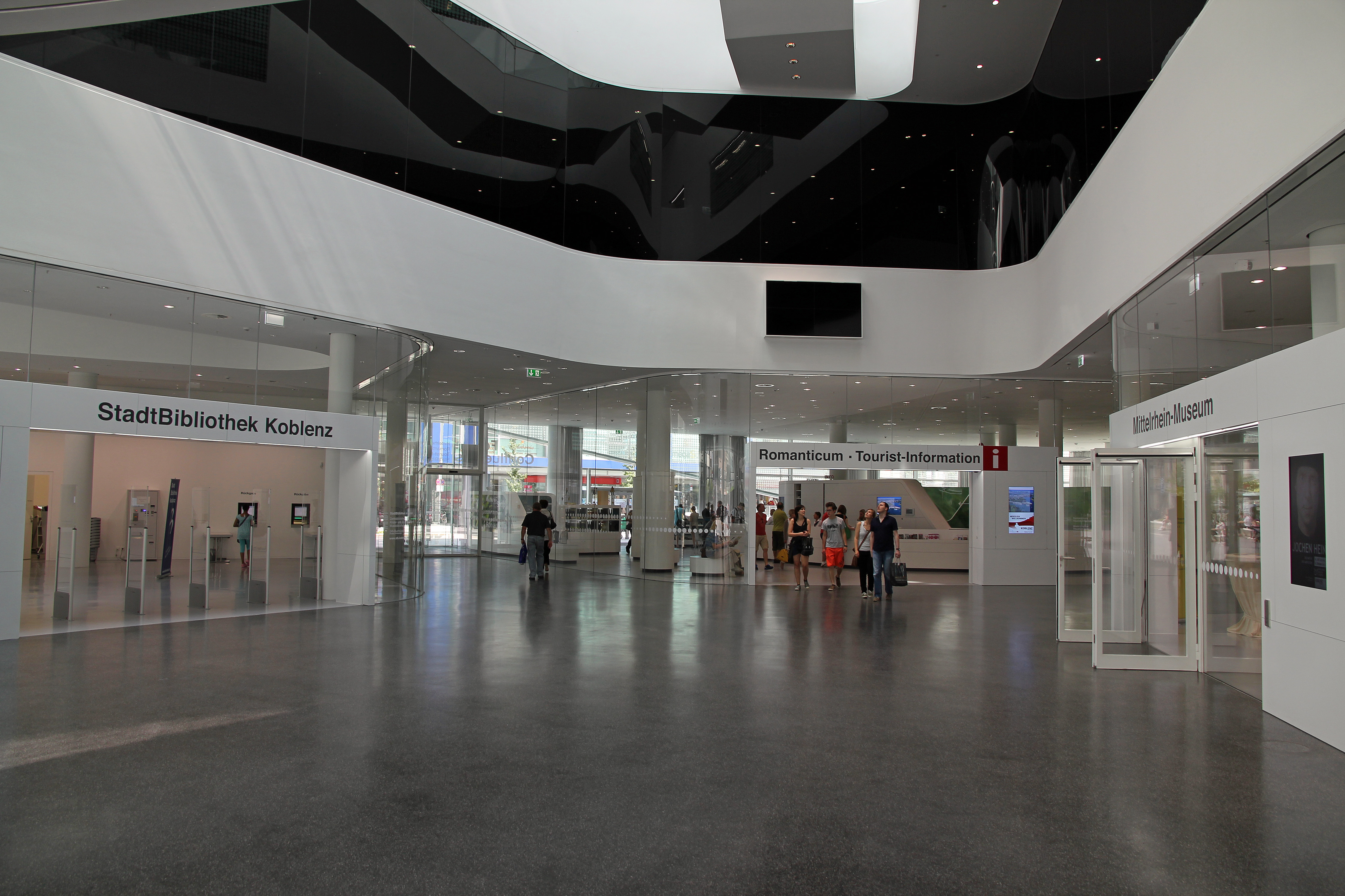 Forum Confluentes in Koblenz